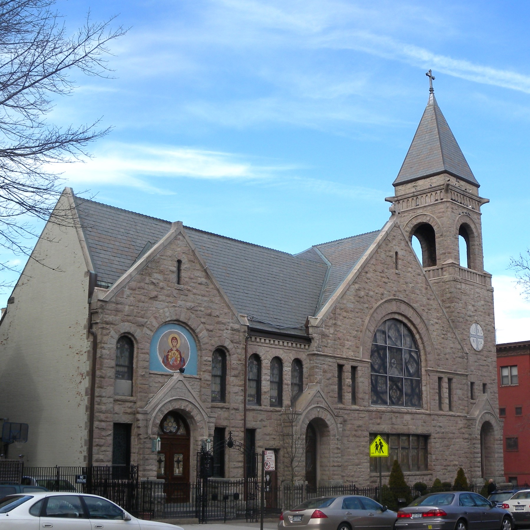 Looking north across 8th Avenue Brooklyn at Church of Virgin Mary on a mostly sunny day.